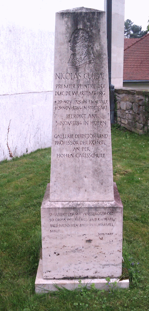 Monument for Nicolas Guibal in Stuttgart-Hofen